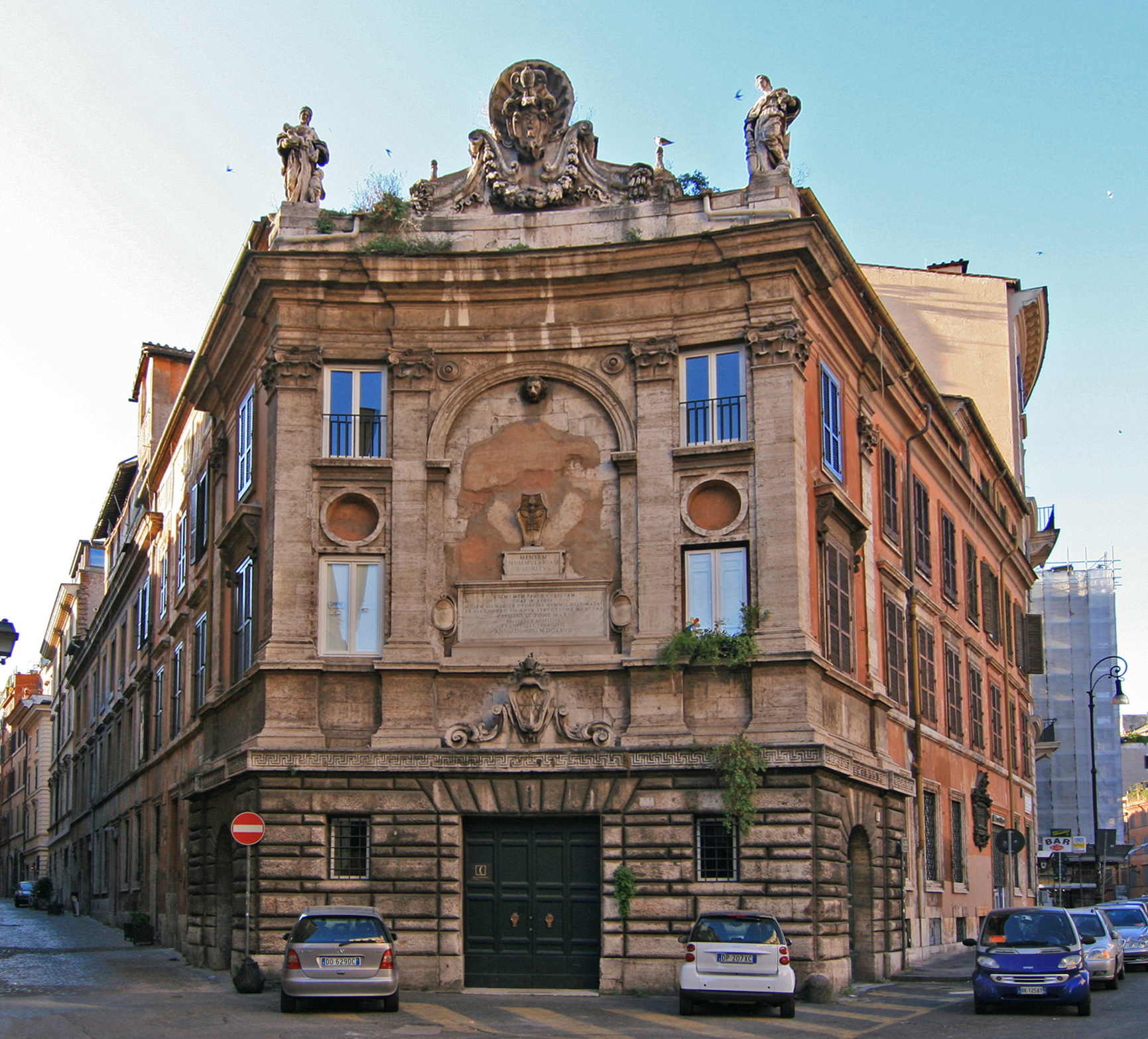 Palazzo d'Antica Zecca, Largo Ottavio Tassoni, Rome. A sinistra, via dei Banchi nuovi.